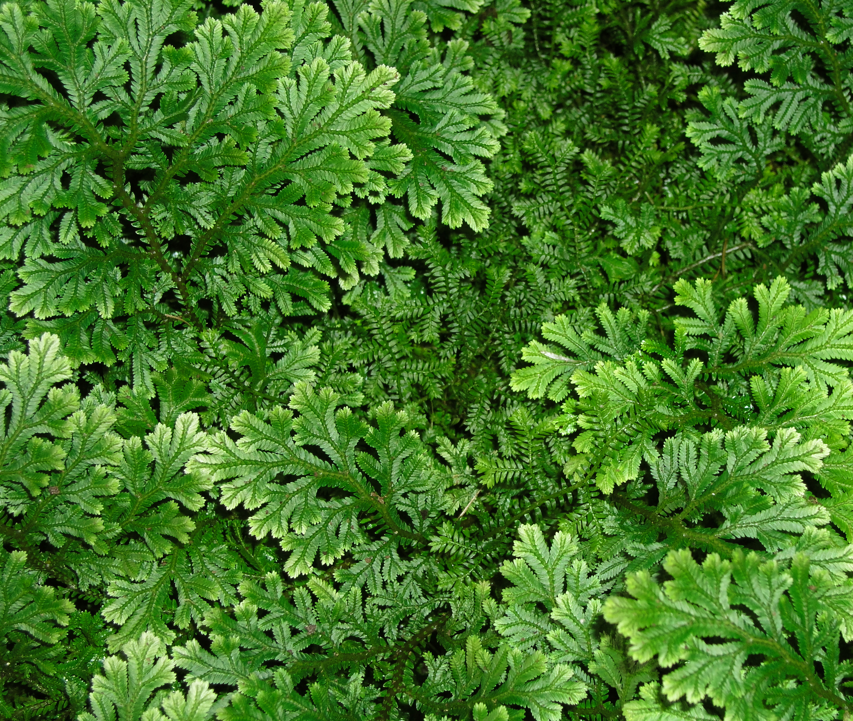 Selaginella bryopteris, Royal Botanical Garden of Madrid, Spain.